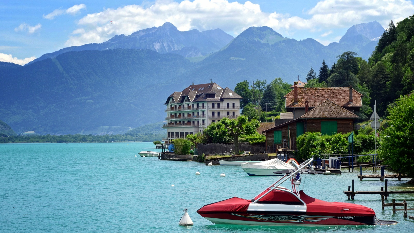 Lac d'Annecy, France Alps. One of the cleanest lake in the world.